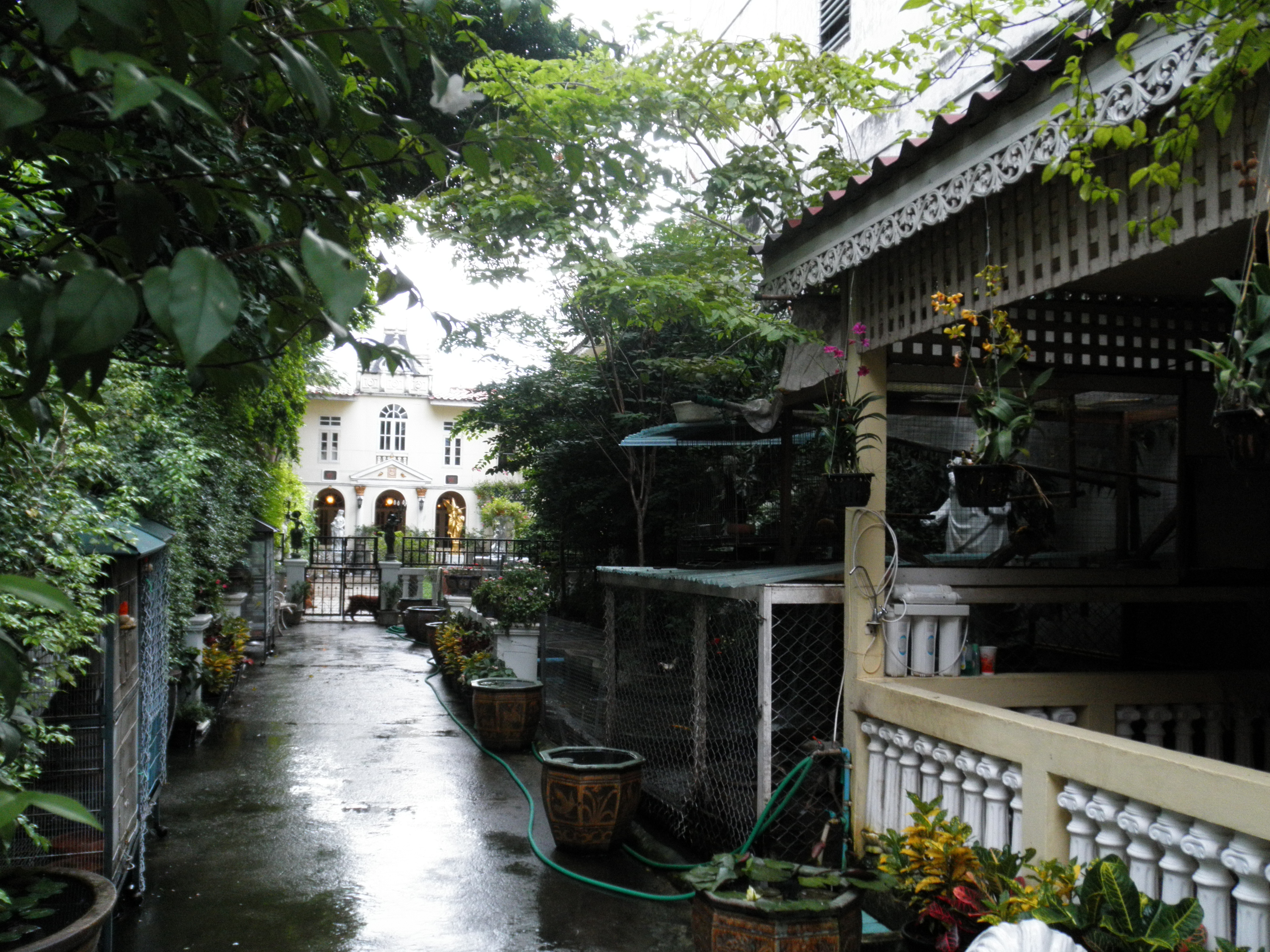 Peeping into a Prince's Palace